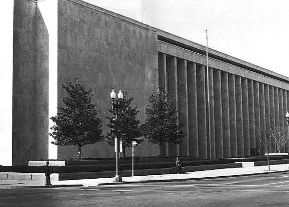 James Madison Memorial Building of the Library of Congress, located in Washington, D.C., the capital of the United States. The fourth floor has the United States Copyright Office.